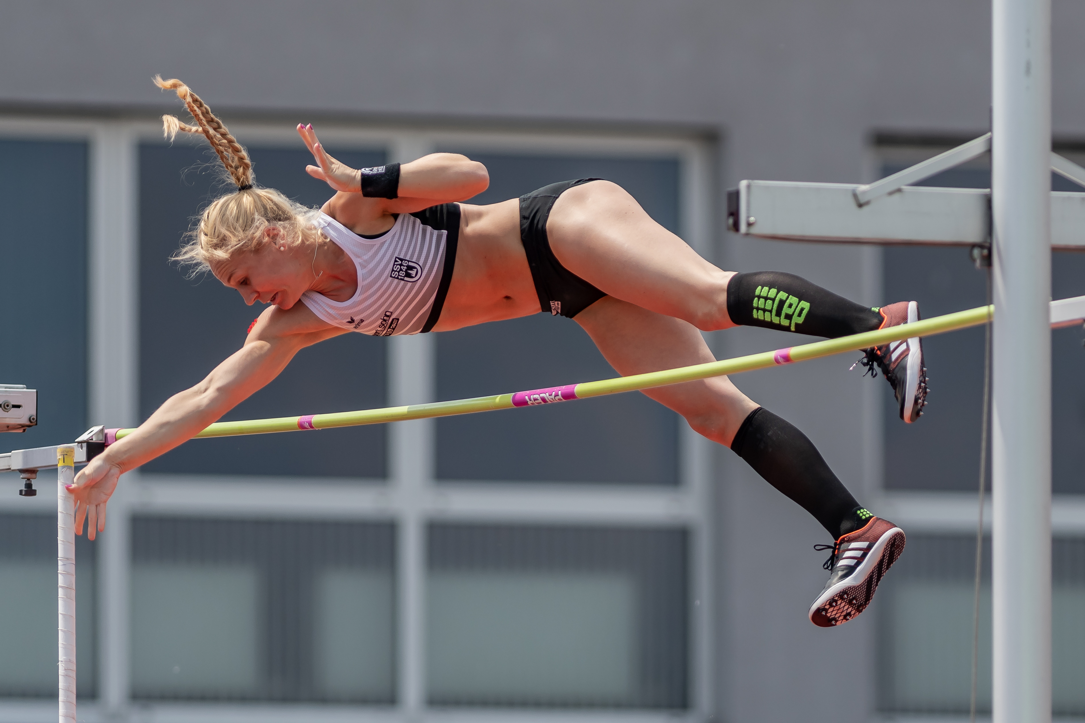 Leichtathletik Gala Linz 2018; women´s pole vault; Dauber Stefanie, SSV Ulm 1846